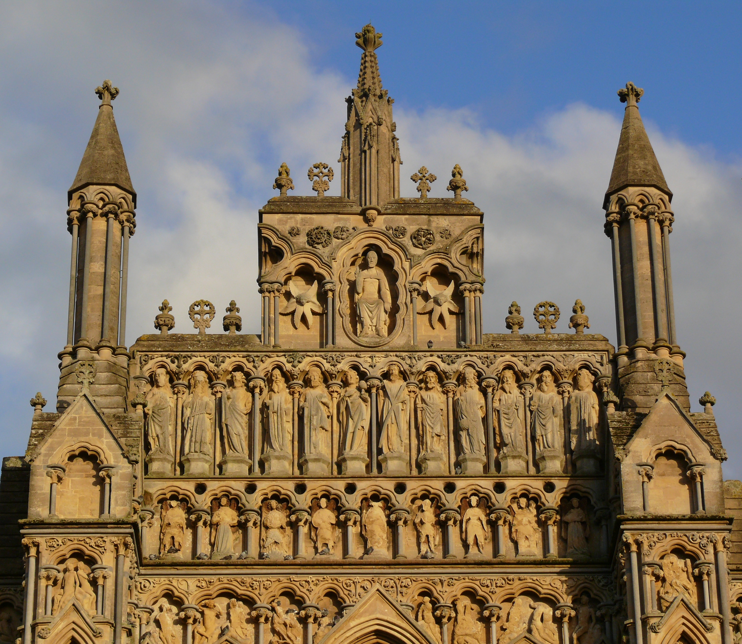 Wells Cathedral, Christ in Majesty.